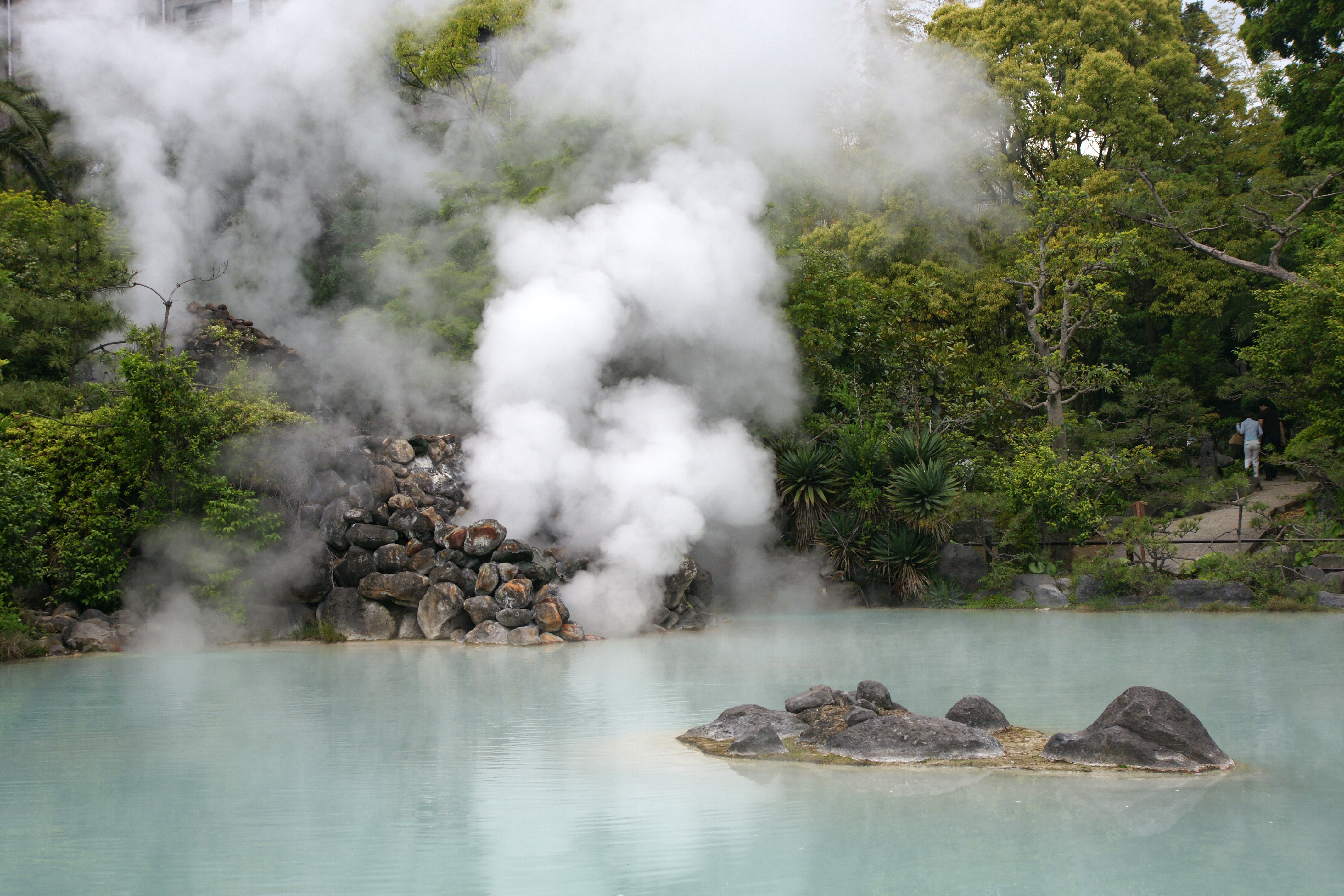 Shiraike Jigoku of Beppu Jigokumeguri, Beppu, Oita prefecture, Japan